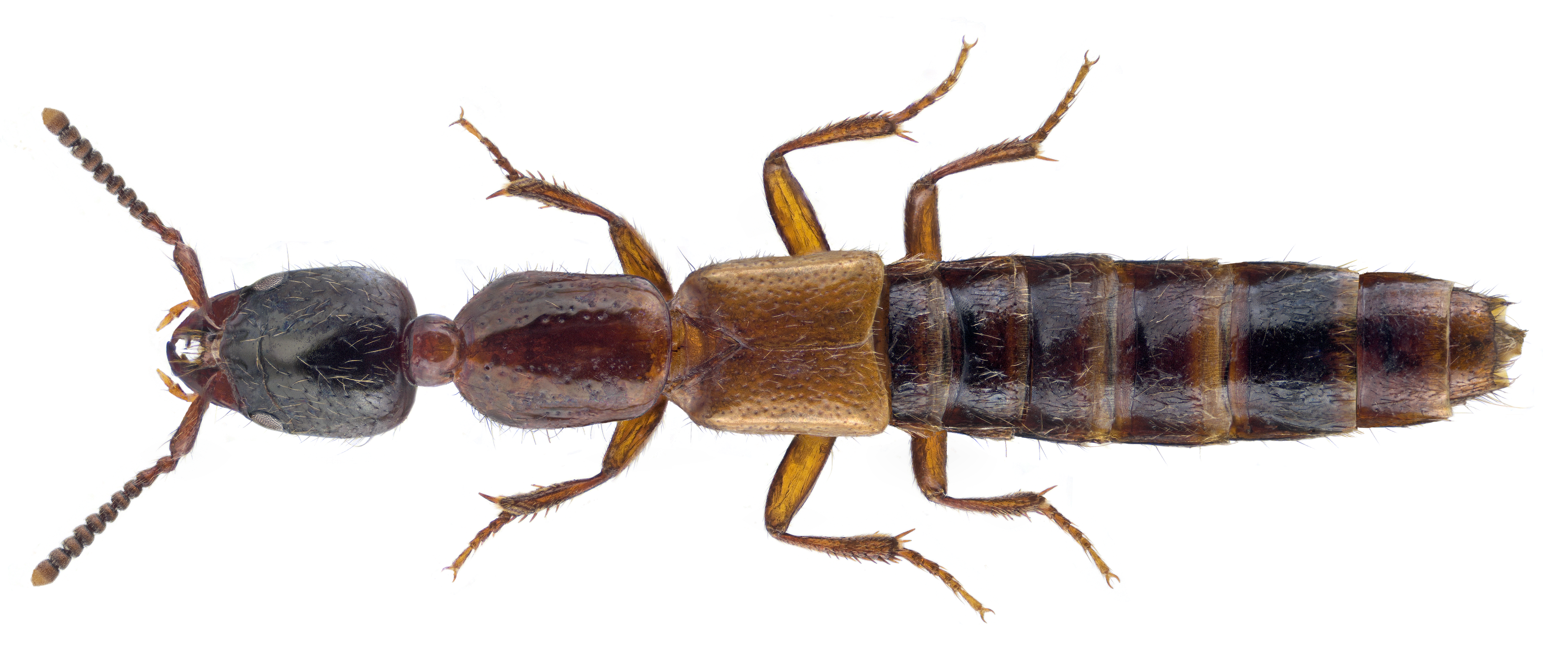 Family: Staphylinidae Size: 8.3 mm (7.0 to 9.5 mm) Origin: Pontomediterranean, Asia Minor to Britain and France and western Russia Ecology: Especially in the soil litter of forests Location: Germany, Bavaria, Upper Franconia, Weismain, Krassach, Baerental leg.det. U.Schmidt, 15.VI.1983 Photo: U.Schmidt, 2018